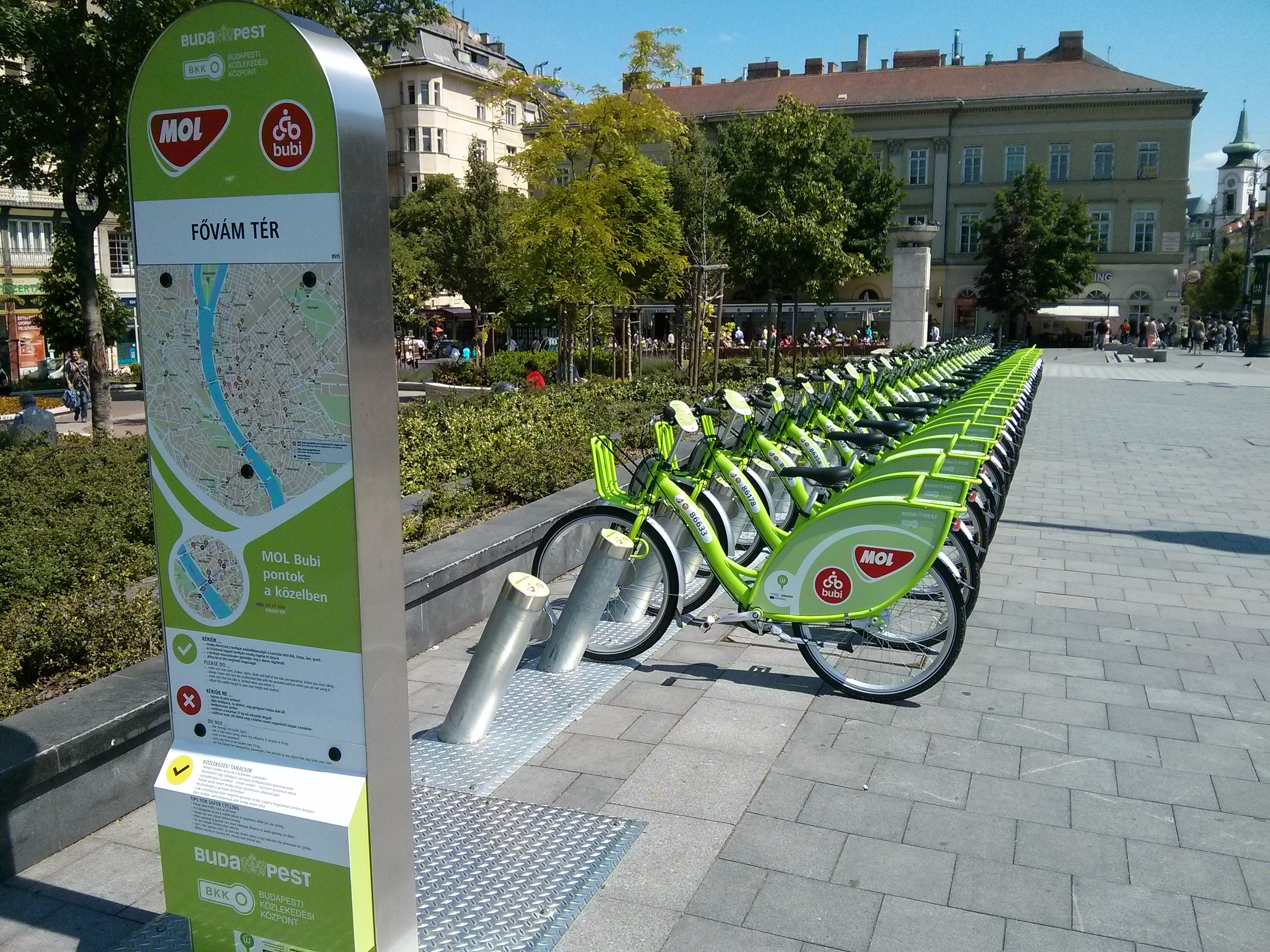 This photo was taken at a BuBi docking station at Fővám tér, Budapest, Hungary.